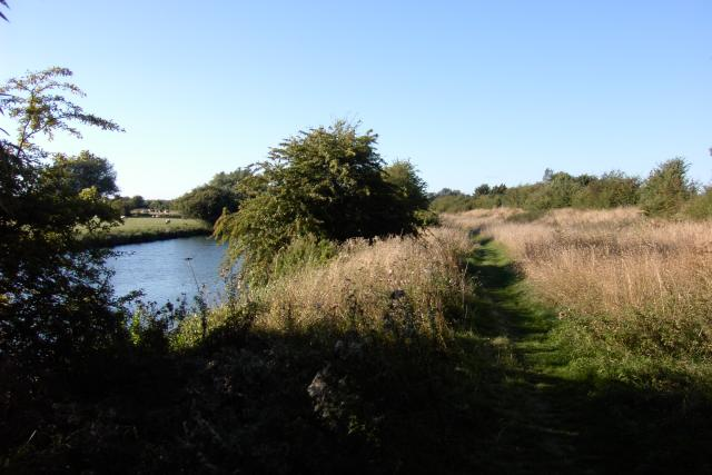 The Isis or Thames near Stanton Harcourt. A little further north, this path is marked "Towing Path". I hope there aren't so many trees in the way at that point.